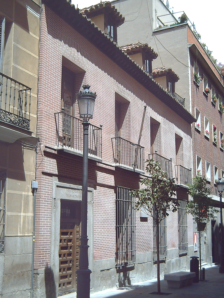 Lope de Vega House–Museum, at 11 Calle de Cervantes (street) in Madrid (Spain). A typical dwelling of the early 17th century. It was purchased by the writer in 1610 for 9,000 reales. He lived there until his death (August 27, 1635). In 1935 it was declared a National Monument. 1st rebuilding and restoration: 1934-1935. 2nd restoration (by Fernando Chueca Goitia): 1973-1975. 3rd restoration: 1990-1992.